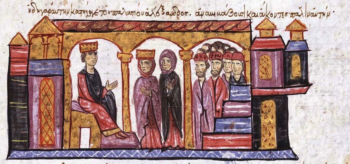 Emperor Constantine VII recalls his mother, Zoe Karbonopsina, from exile